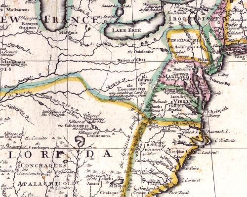 Elements of Erie Nation or confederacy shown in the general area of the Upper Ohio Valley on this illustration as the 'NATION OF CHAT', a mal-translation of 'People of the Cat', the Iroquois nickname for their Iroquoian cousins whose full name was "People of the Panther"[1]. Map Clip from John Senex map (ca. 1710) showing the peoples Captain Vielle passed on his journey (1692–94) to arrive in Chaouenon's country, as the French Jesuit called the Shawnee people.